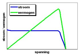 Voltage-Current and Voltage-Power relationship of a Solar Cell